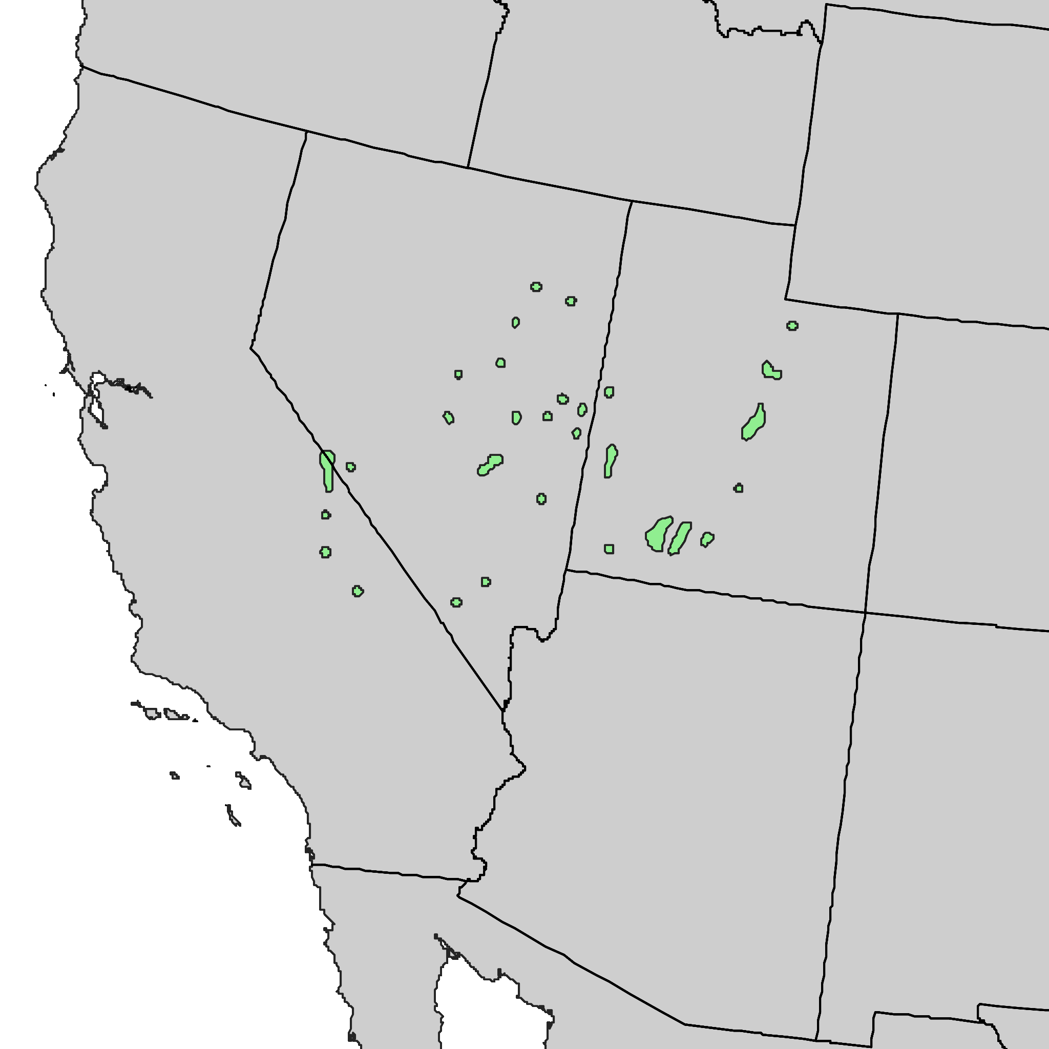 Natural distribution map for Pinus longaeva